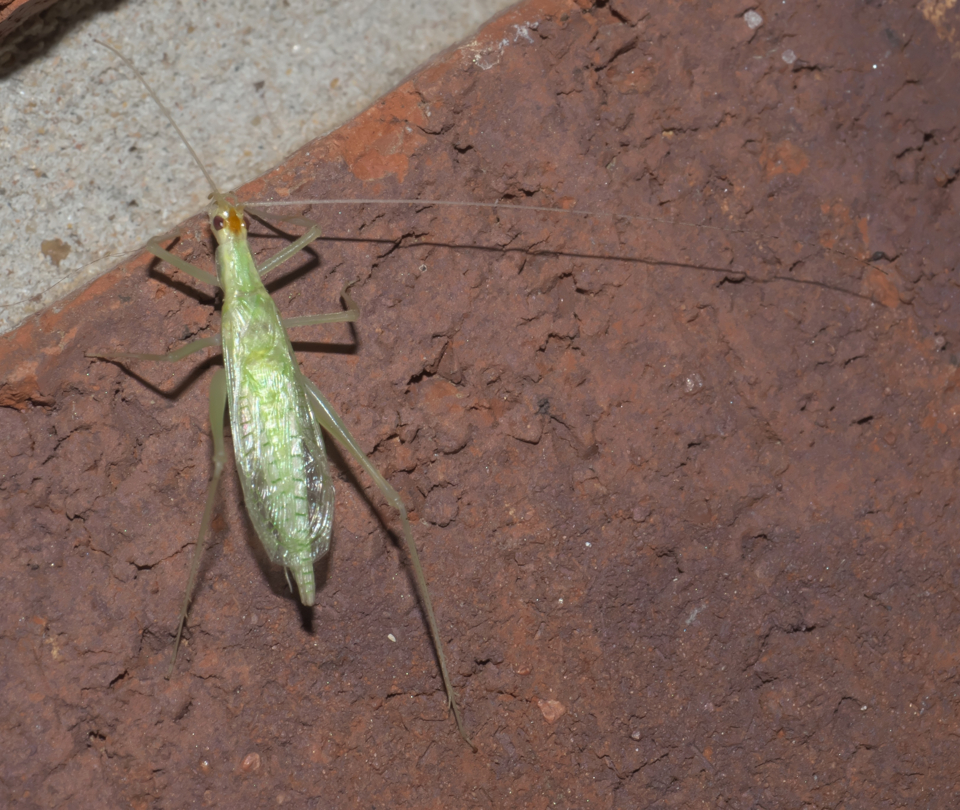 Oecanthus niveus, Narrow-winged Tree Cricket, ID Confidence: 88